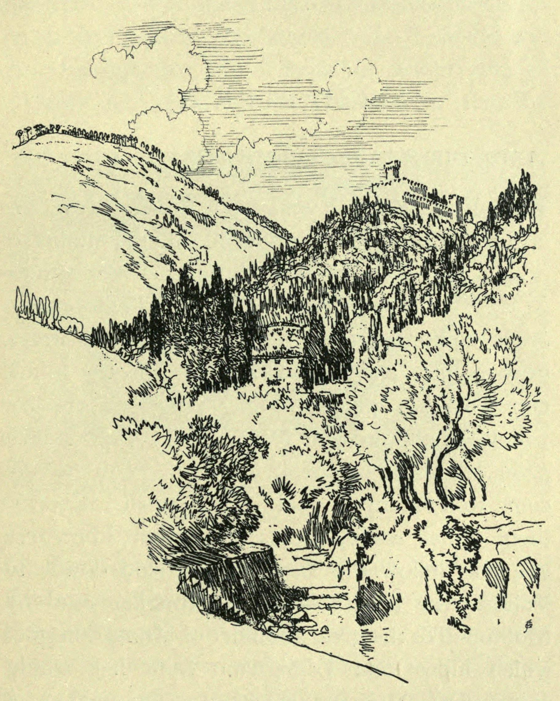 See title